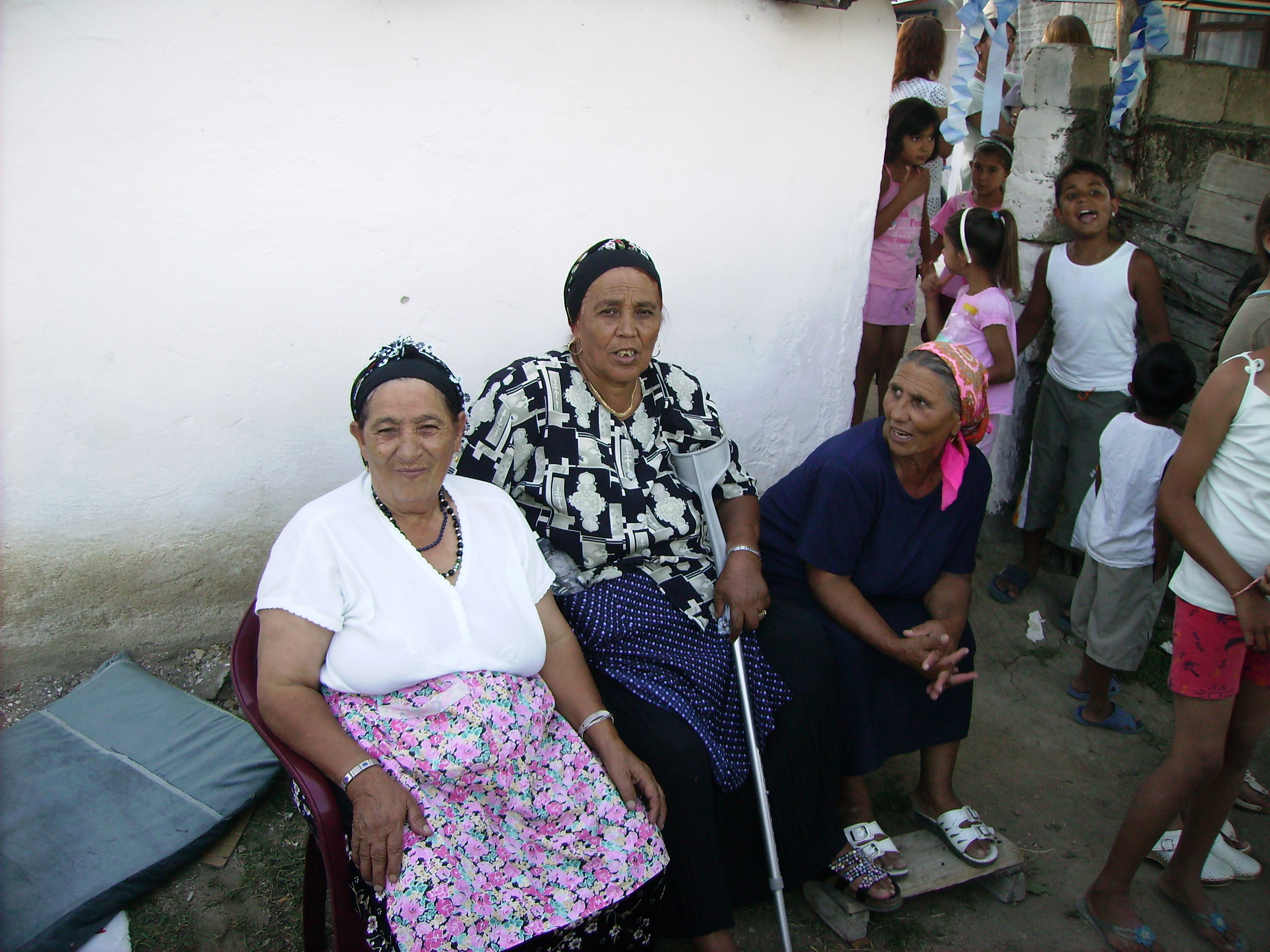 Roma in the Serbian town of Bujanovac.